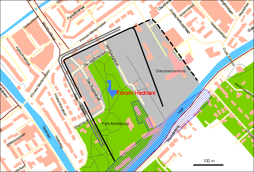 Location map of Roman town Forum Hadriani in Voorburg, The Netherlands